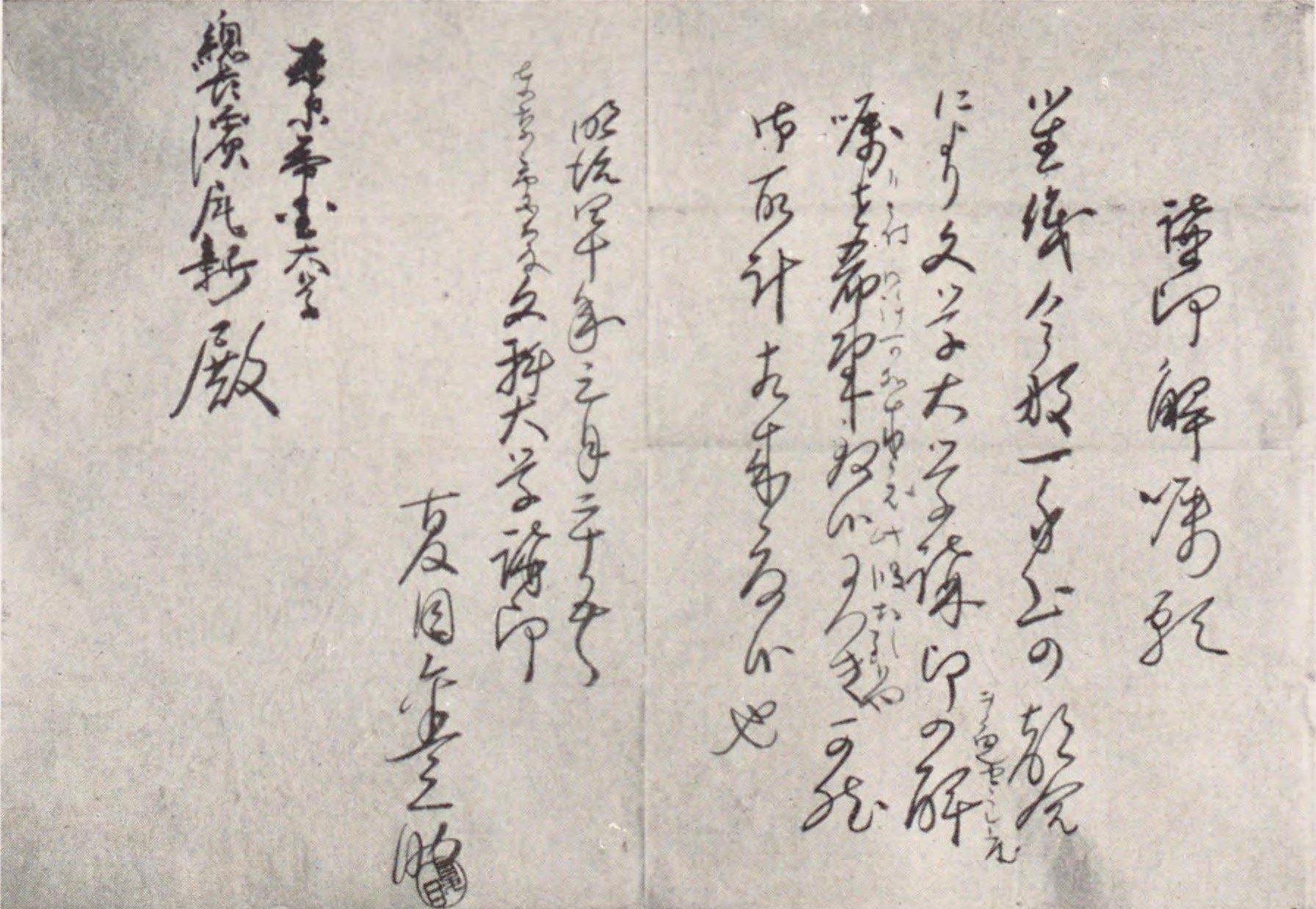 The resignation of Natsume Soseki to Hamao Arata, the president of Tokyo Imperial University in 1907.